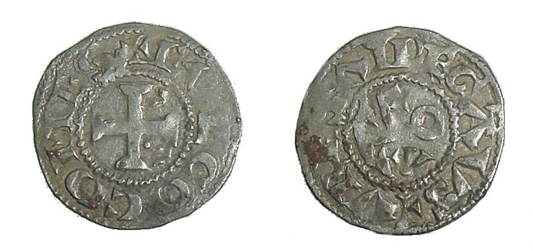 Denier of Fulk V, count of Anjou (1109 - 1129)